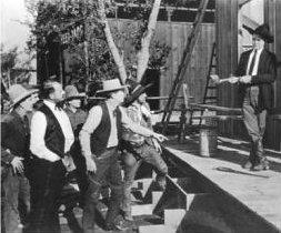 The Freeze-Out (1921)) en la que aparece Harry Carey a la derecha.